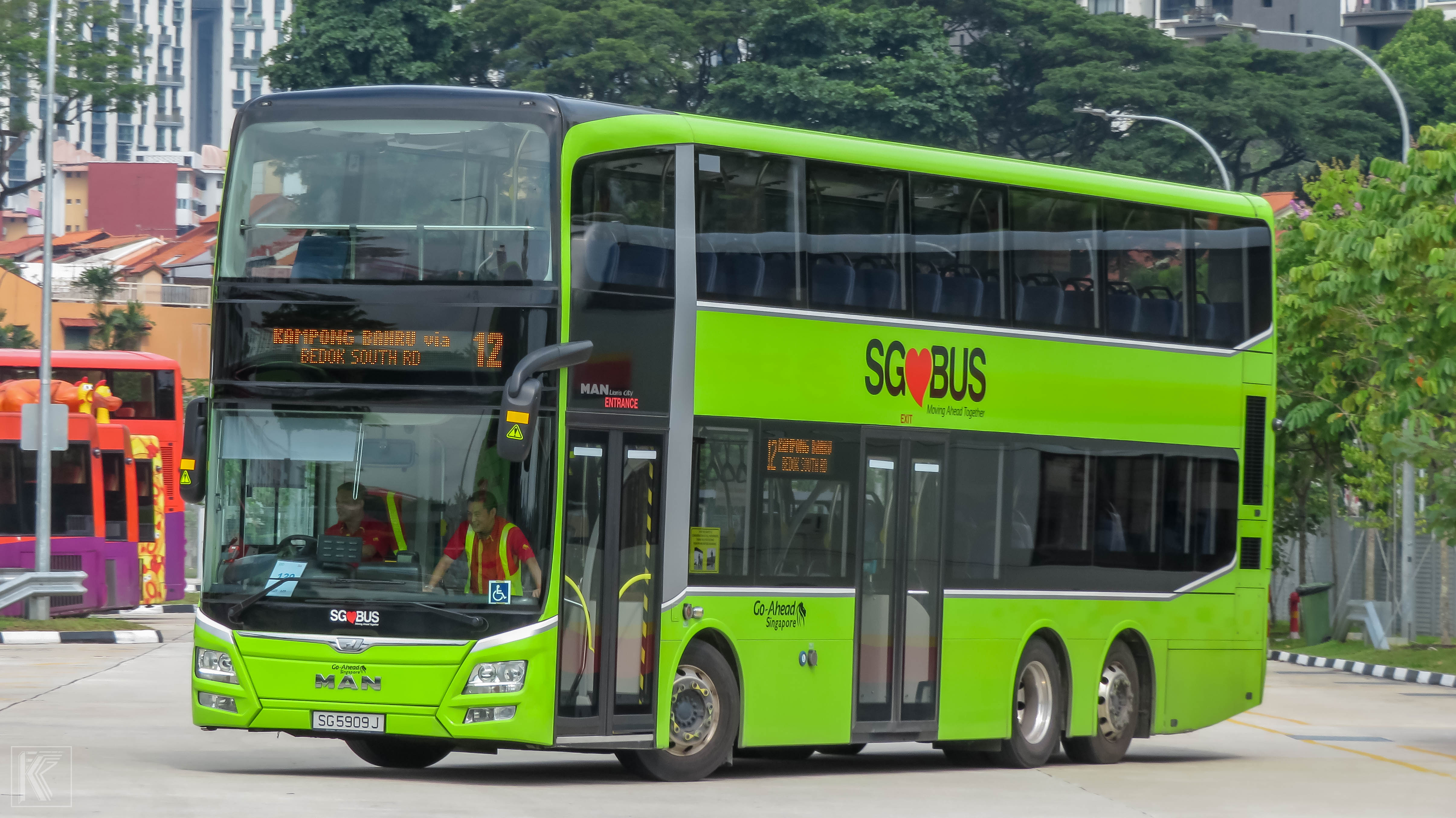 SG5909J - 12